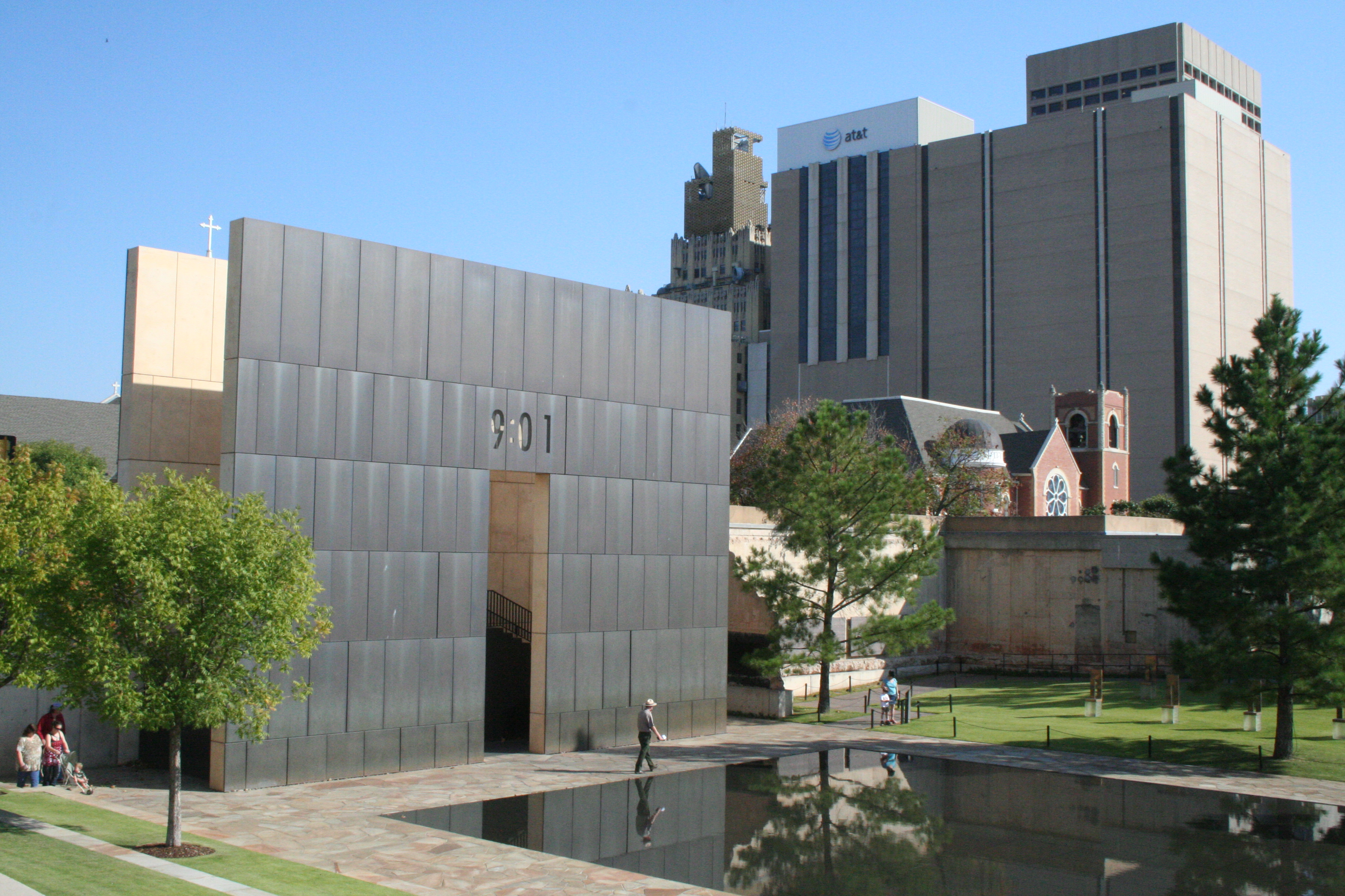 Views in and around the Oklahoma City National Memorial. 9:01 gate